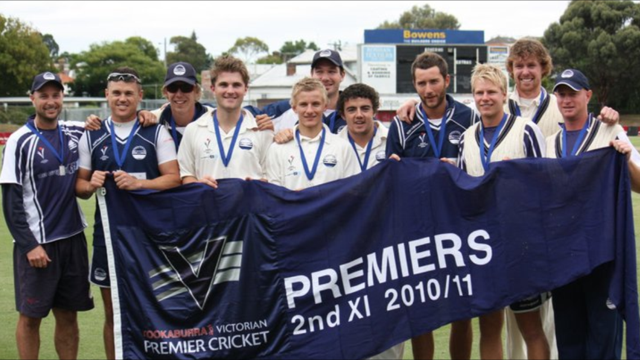 Geelong Cricket Club Premiers 2011/12